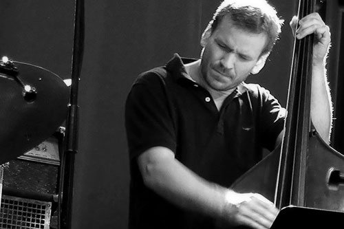 Jon Rune Strøm playing in Paal Nilssen Loves band Large Unit in Aarhus Denmark 2015